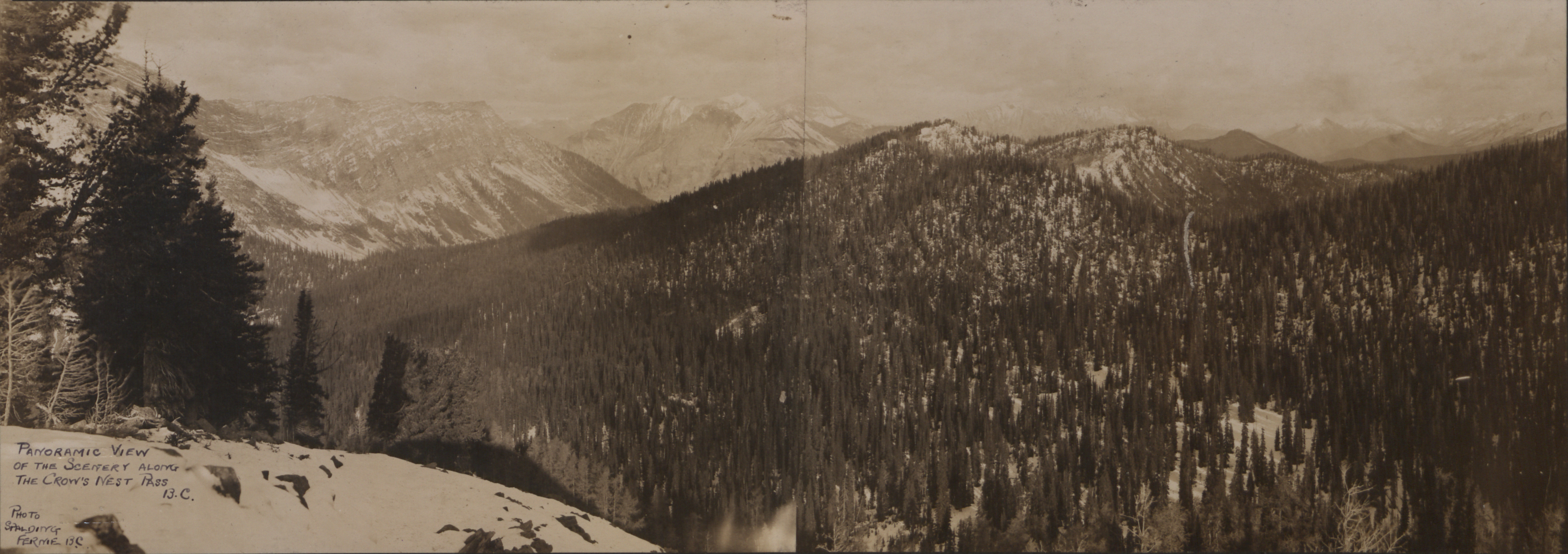 Original caption: “Panoramic view of the scenery along the Crow's Nest Pass, British Columbia.”